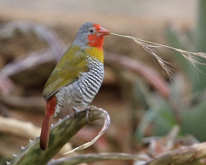 Male Green-winged Pytilia Kiswahili: Tunguridi Bawa-kijani Tsavo East, Kenya 690V0023